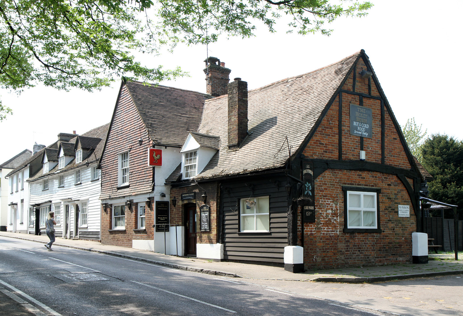 The Hollybush